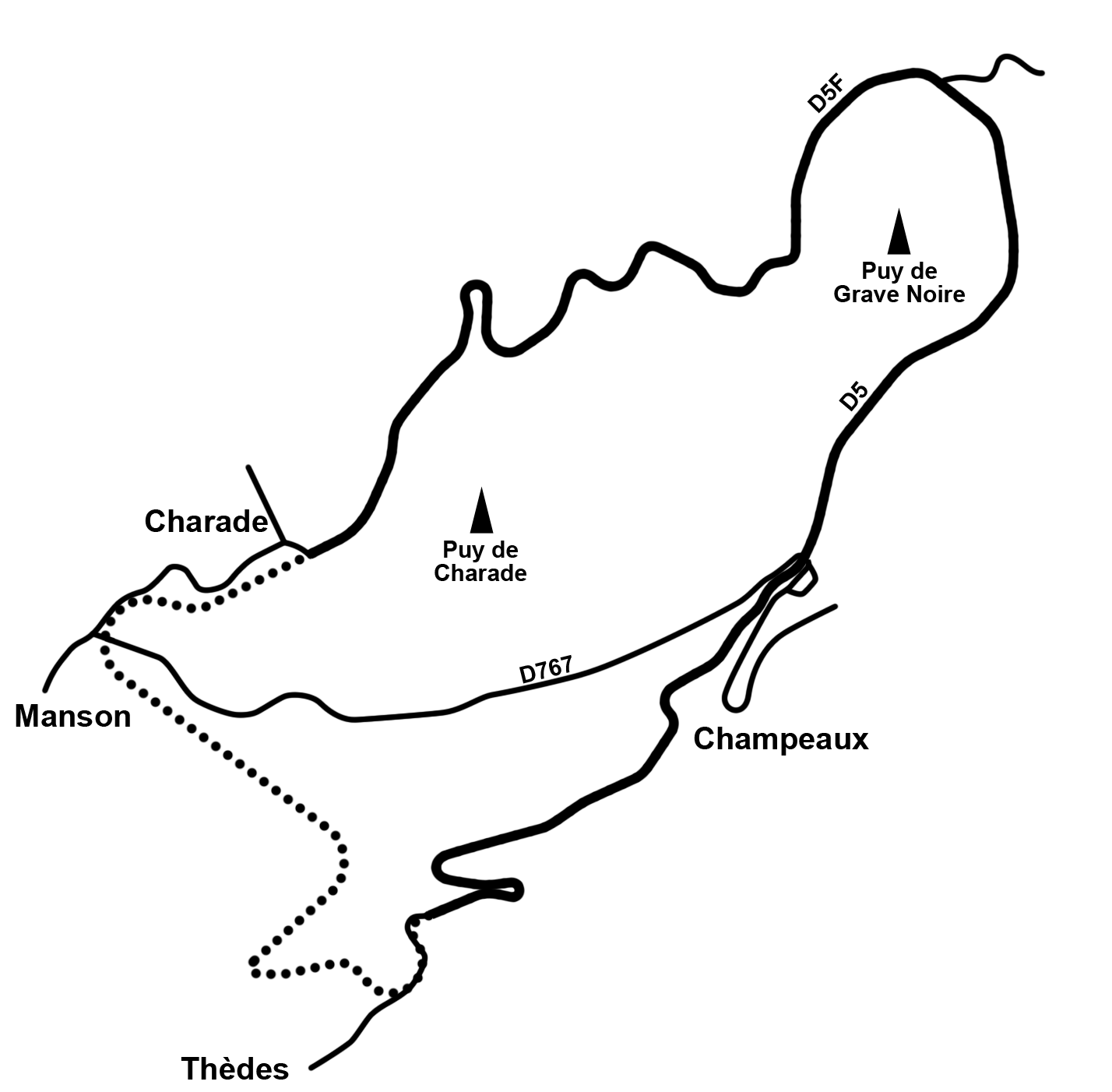 how the track Charade in Charade was created.